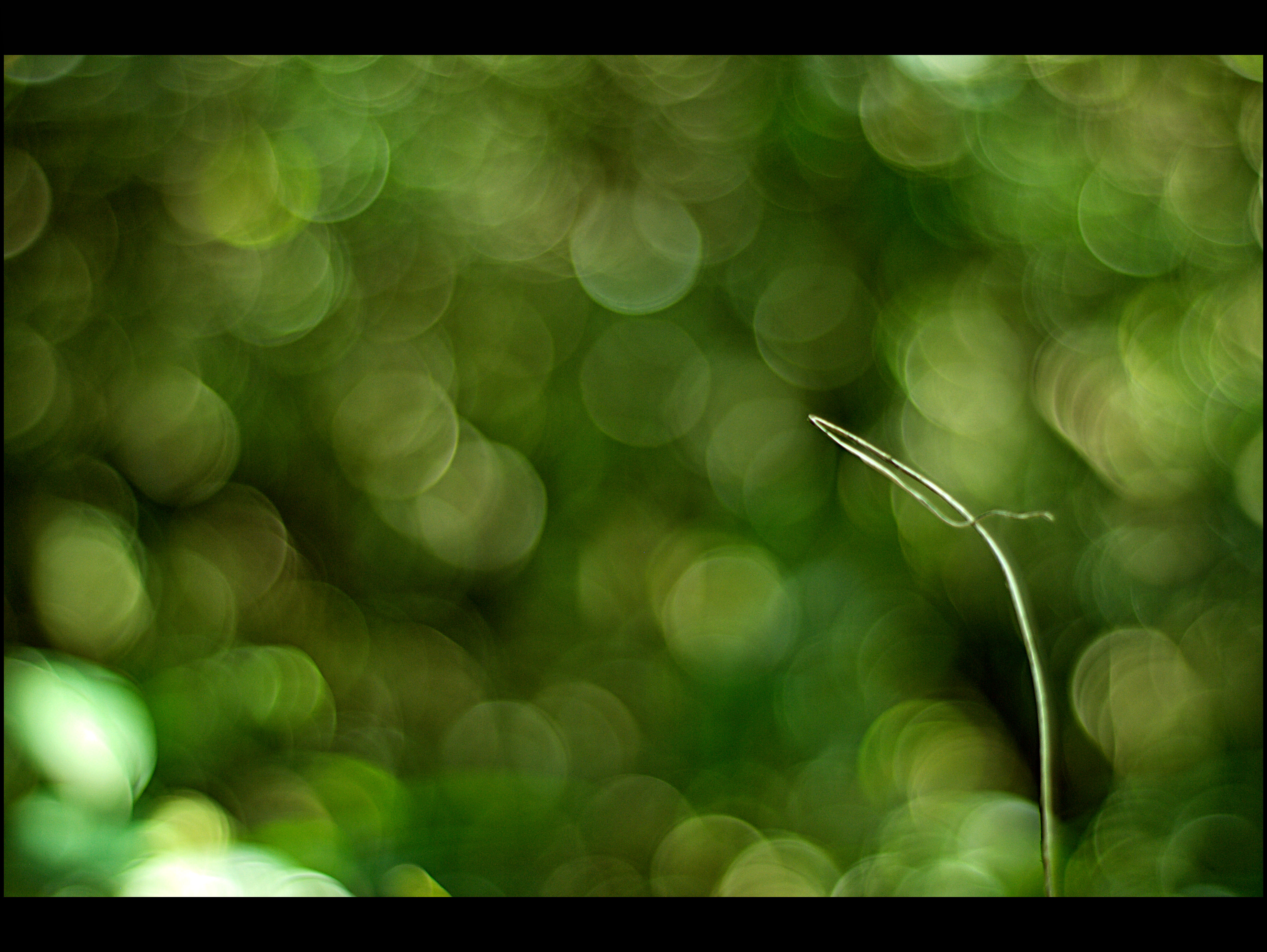 Image with bokeh in background.Nikkor 50mm lens with 1.8 Aperture is used